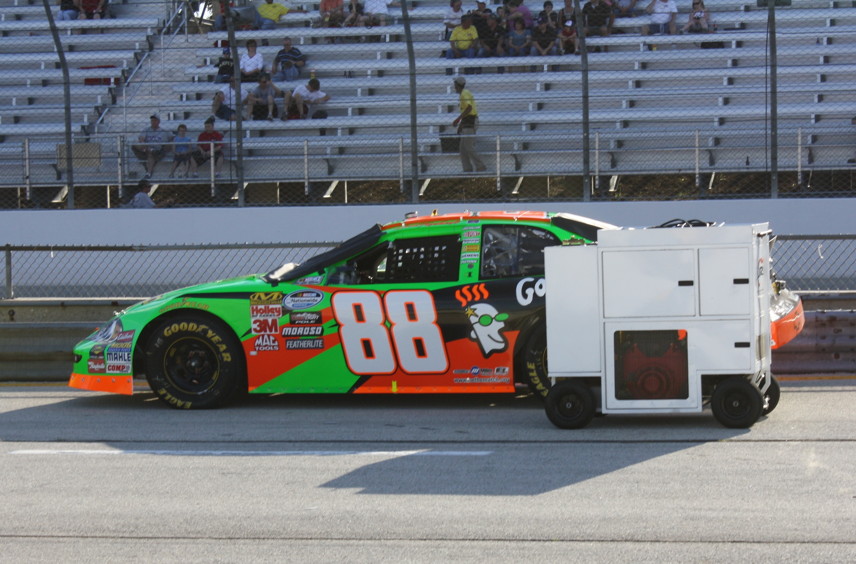 NASCAR driver Brad Keselowskis Chevrolet at the 2009 Northern 250 Nationwide Series race at the Milwaukee Mile.